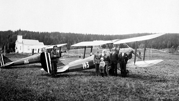 First aircraft at Hatfjelldal Airport, Norway